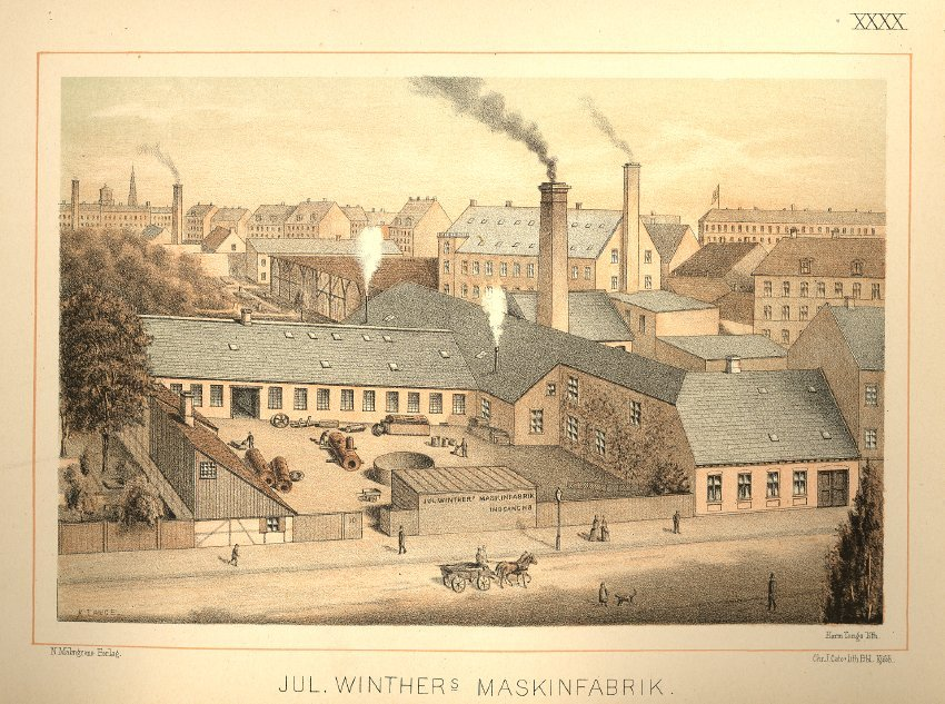 Julius Winthers Maskinfabrik in Blågårdsgade in Nørrebro, Copenhagen, Denmark